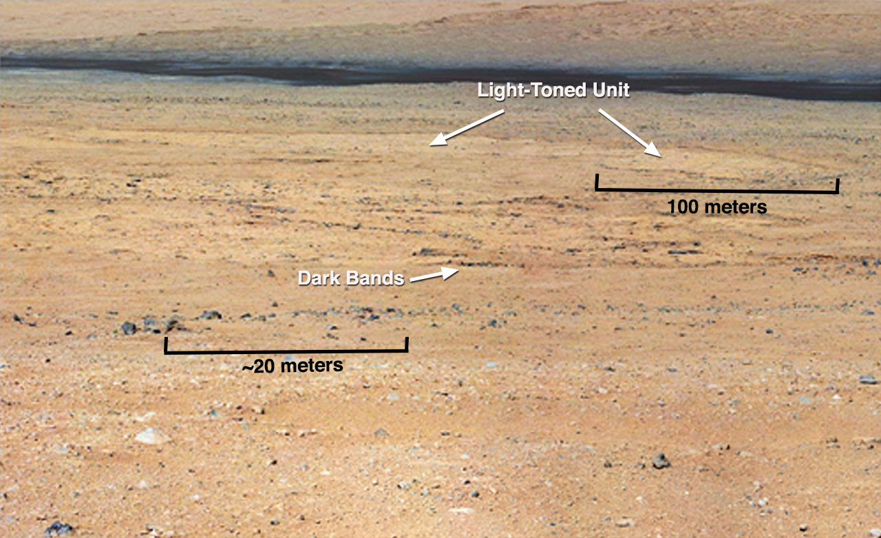 09.19.2012 Dark Bands Run Through Light Layers (Annotated) This mosaic from the Mast Camera on NASA's Curiosity rover shows a close-up view looking toward the "Glenelg" area, where three different terrain types come together. All three types are observed from orbit with the High-Resolution Imaging Science Experiment (HiRISE) camera on NASA's Mars Reconnaissance Orbiter. By driving there, Curiosity will be able to explore them. One of these terrain types is light-toned with well-developed layering, which likely records the deposition of sedimentary materials. There are also black bands that run through the area and might constitute additional layers that alternate with the light-toned layer(s). The black bands are not easily seen from orbit and are on the order of about 3.3-feet (1-meter) thick. Both of these layer types are important science targets. This mosaic is composed of images taken with the Mastcam 100-millimeter camera.